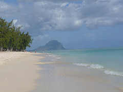 Beach in Mauritius - Flic en Flac